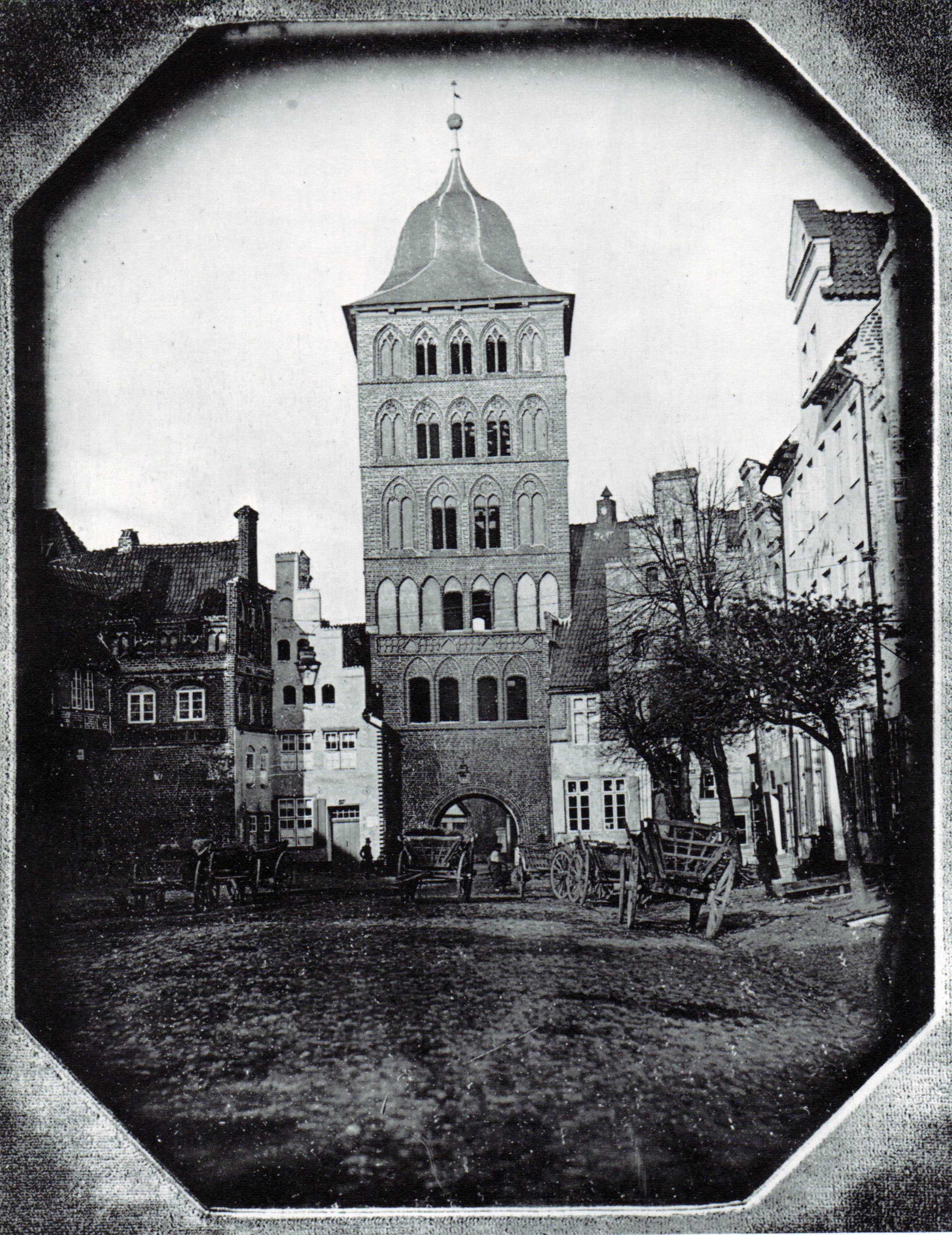 The Burgtor town gate in Lübeck